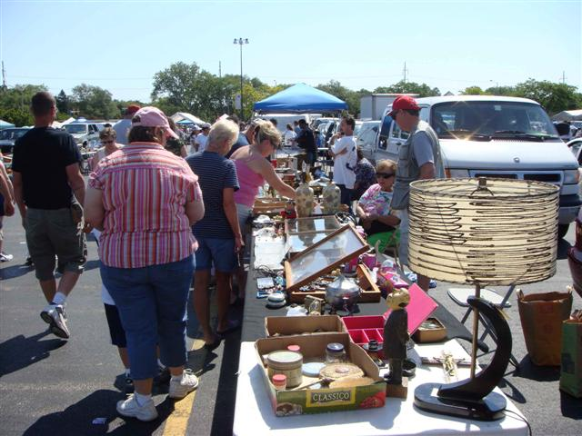 Taken at a Chicagoland Flea Market. Rosemont, Illinois on Sunday.